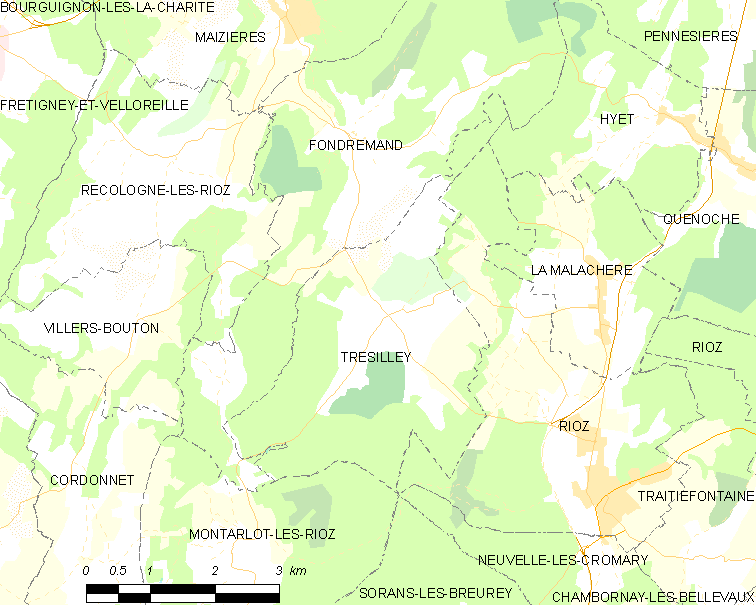 Map of French municipality